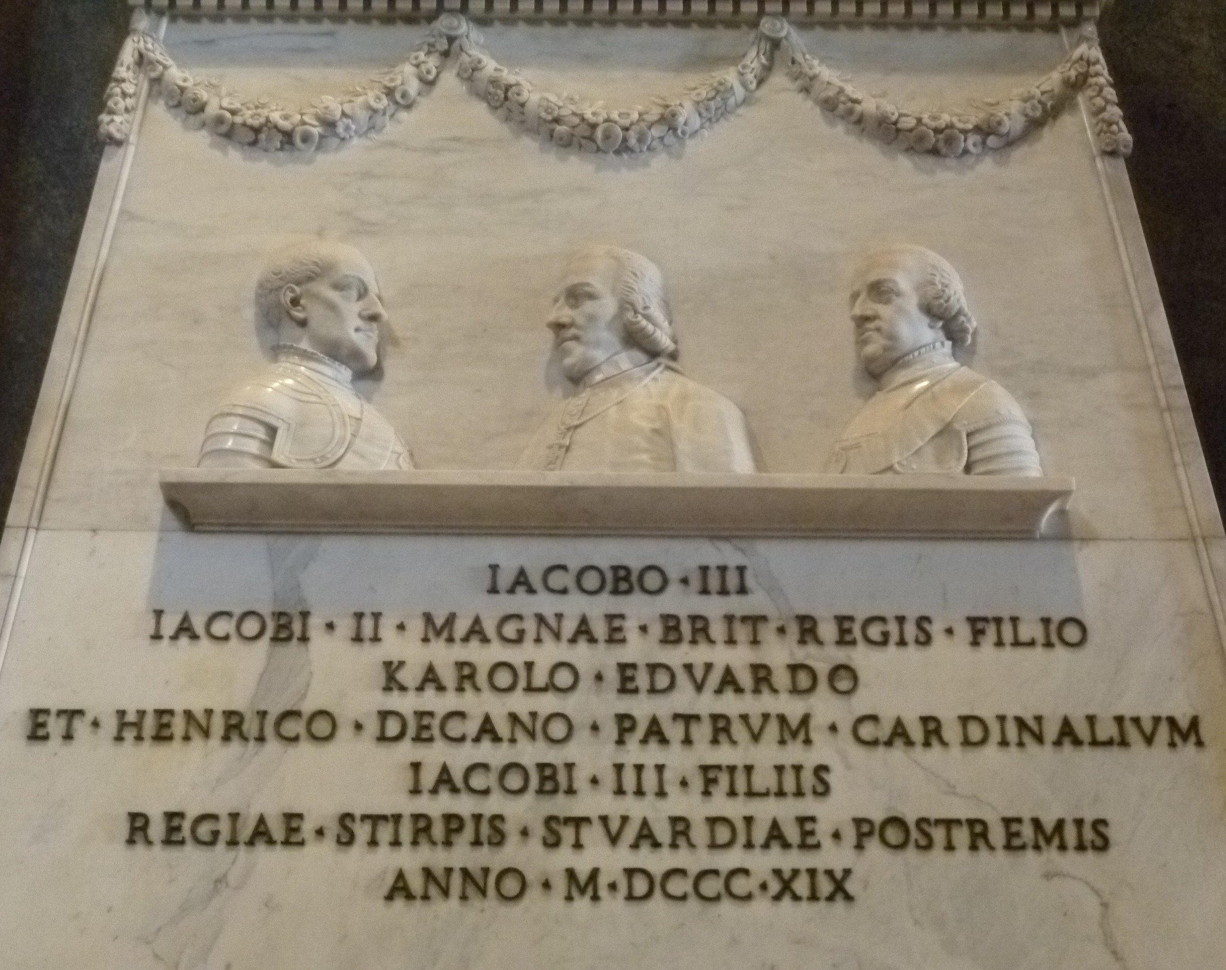 Monument to the Stuarts detail, St. Peter's Basilica, Rome